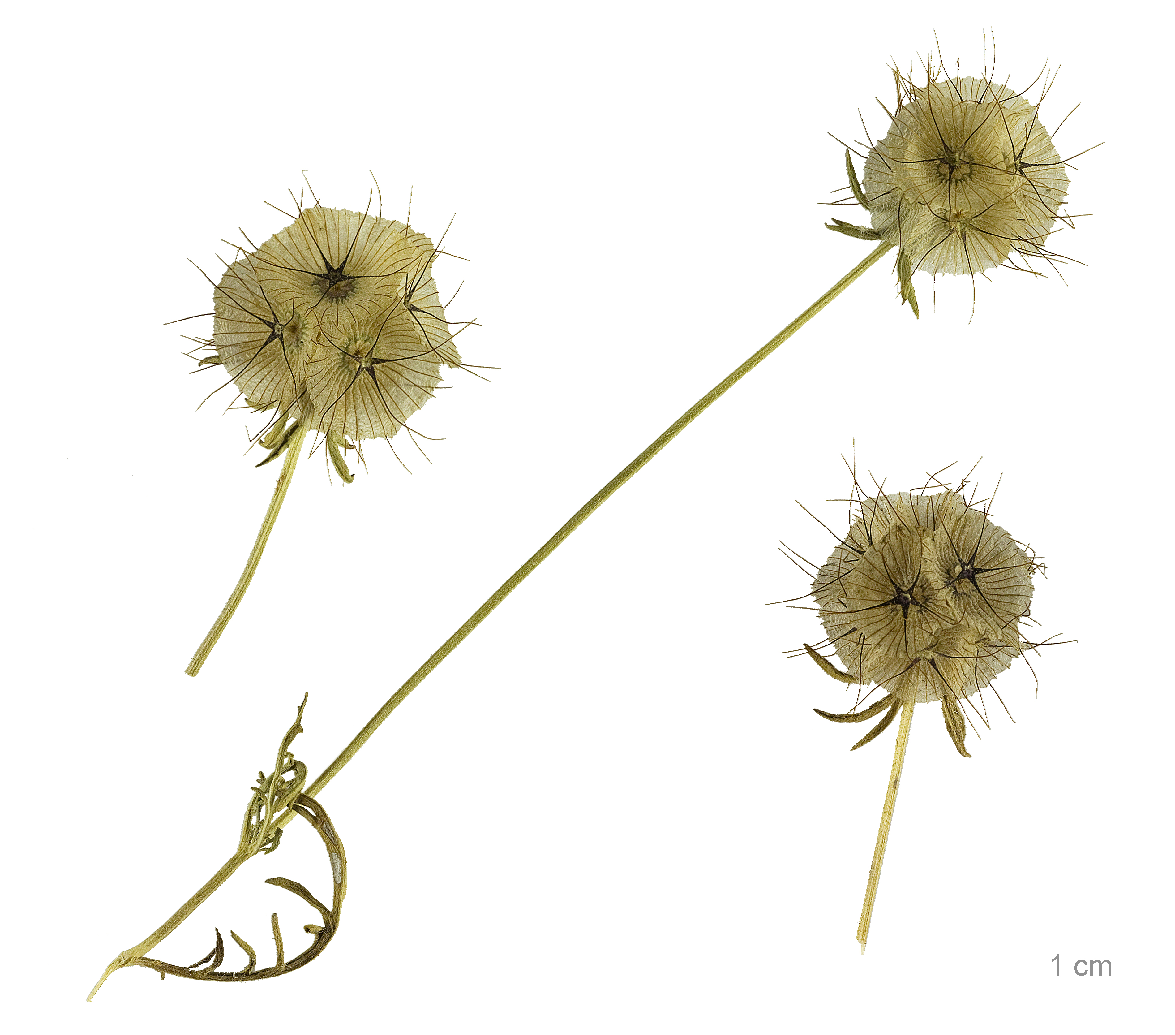 Scabiosa stellata, Scabiosa stellata, fruits